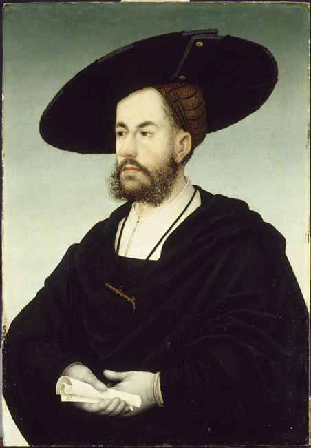 Provenance: Germany ; Depicted person: Anton Fugger